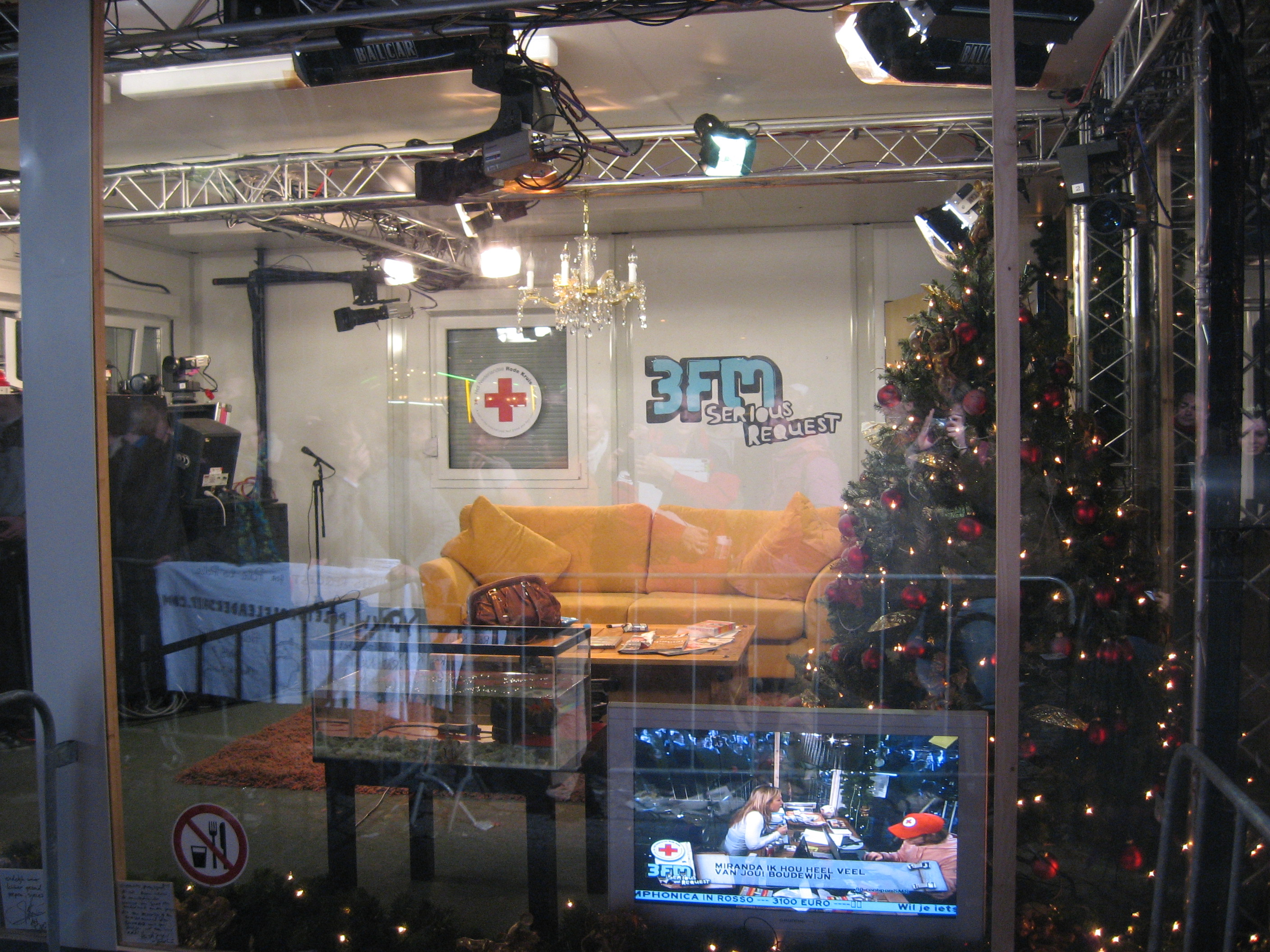 The 'Glass House' on the Neude in Utrecht, the Netherlands. A yearly action from Dutch radio station 3FM to raise money for charity. This is the interior of the glass house.